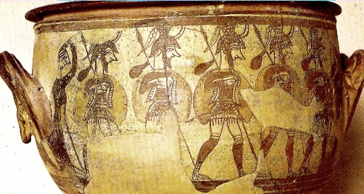 12th century B.C. vase depicting soldiers, found in Mycenae